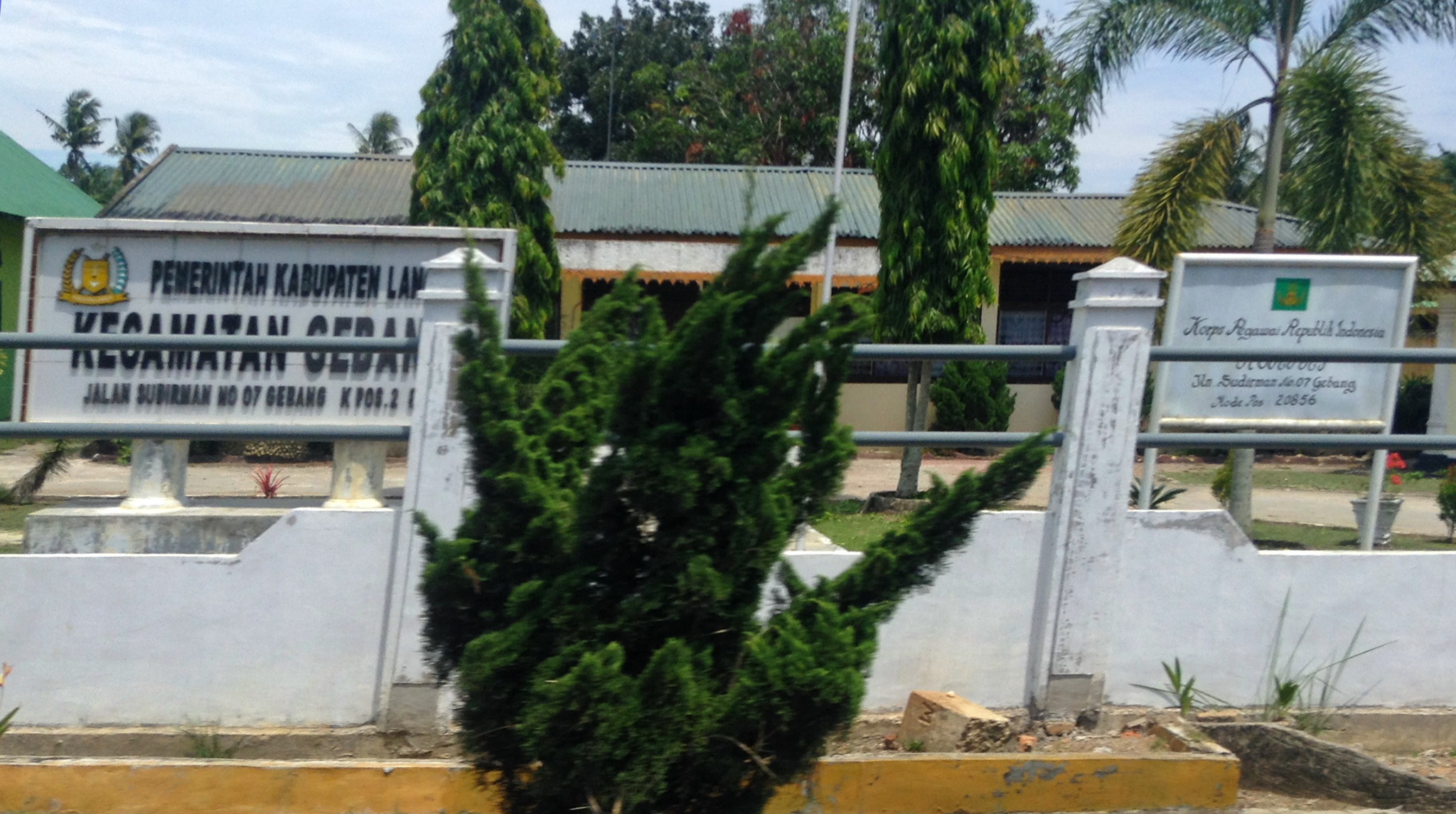 Office of Gebang, Langkat, North Sumatra, Indonesia.